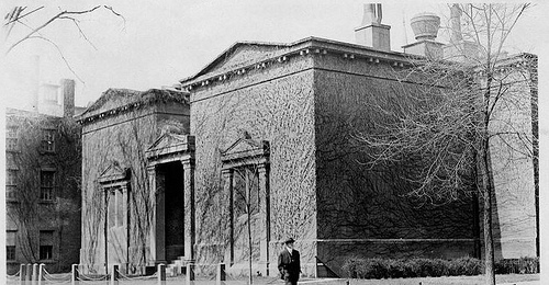 View of the exterior of the Skull and Bones 'tomb,' located at 64 High Street, New Haven, Connecticut. From the photographic collection of Viola F. Barnes, Yale College class of 1919. Courtesy of the Yale University Manuscripts & Archives Digital Images Database. Retouched by MarmadukePercy.